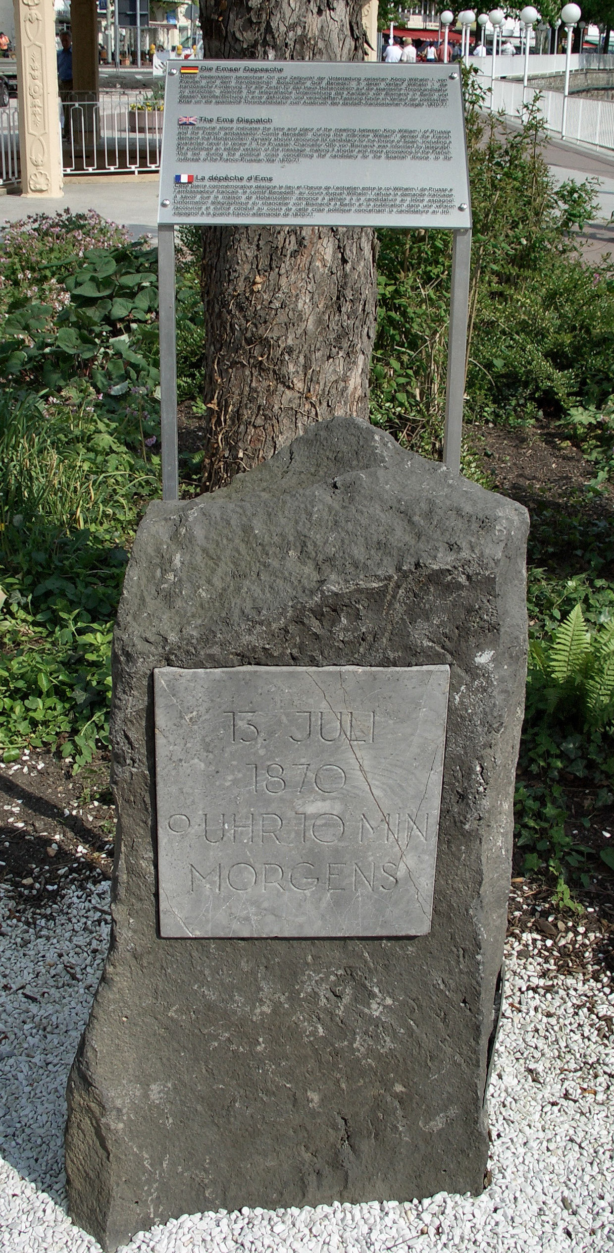 Memorial stone to the Ems Dispatch in Bad Ems 13 July 1870, 9 O'clock 10 minutes in the morning. This memorial stone indicates the time and place of the meeting between King William I of Prussia and the French ambassador, Comte Benedetti. During this interview William I denied the French demand that Hohenzollern dynasty should renounce its candidacy for the throne of Spain, including a guarantee never to renew it. The Prussian Chancellor Otto von Bismarck was informed by telegraph. He published an edited version, making it shorter and more provoking to the French. This led, during the political crisis concerning the candidacy for the Spanish throne, to the outbreak of the Franco-Prussian War, 1870/71.